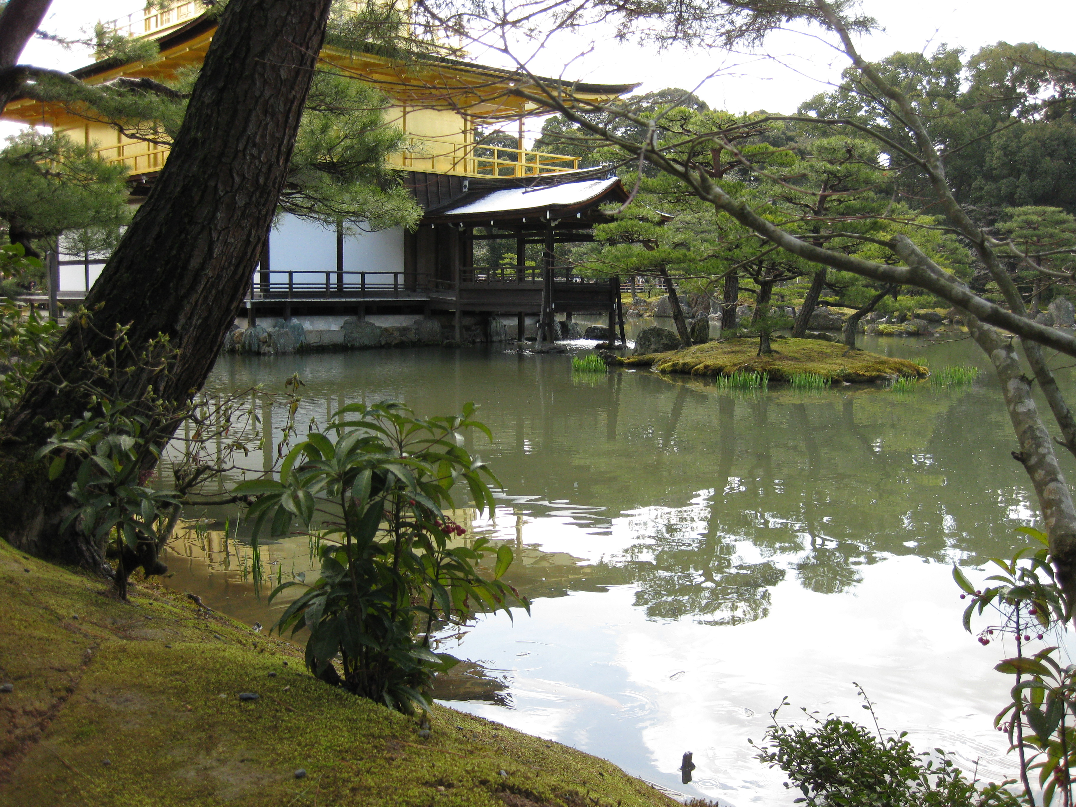 Kinkaku-ji or temple of the Golden Pavillion, in Kyoto, Japan.